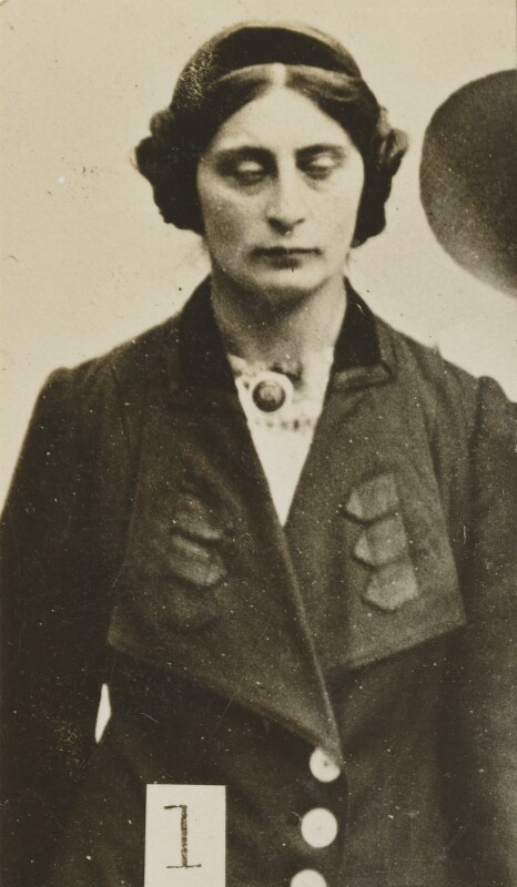 An image created by the United Kingdom's Criminal Record Office and then made available at the UKs National Portrait Gallery. These date from c.1914 when the suffragettes had an arson campaign before WW1. Margaret Scott (suffragette)